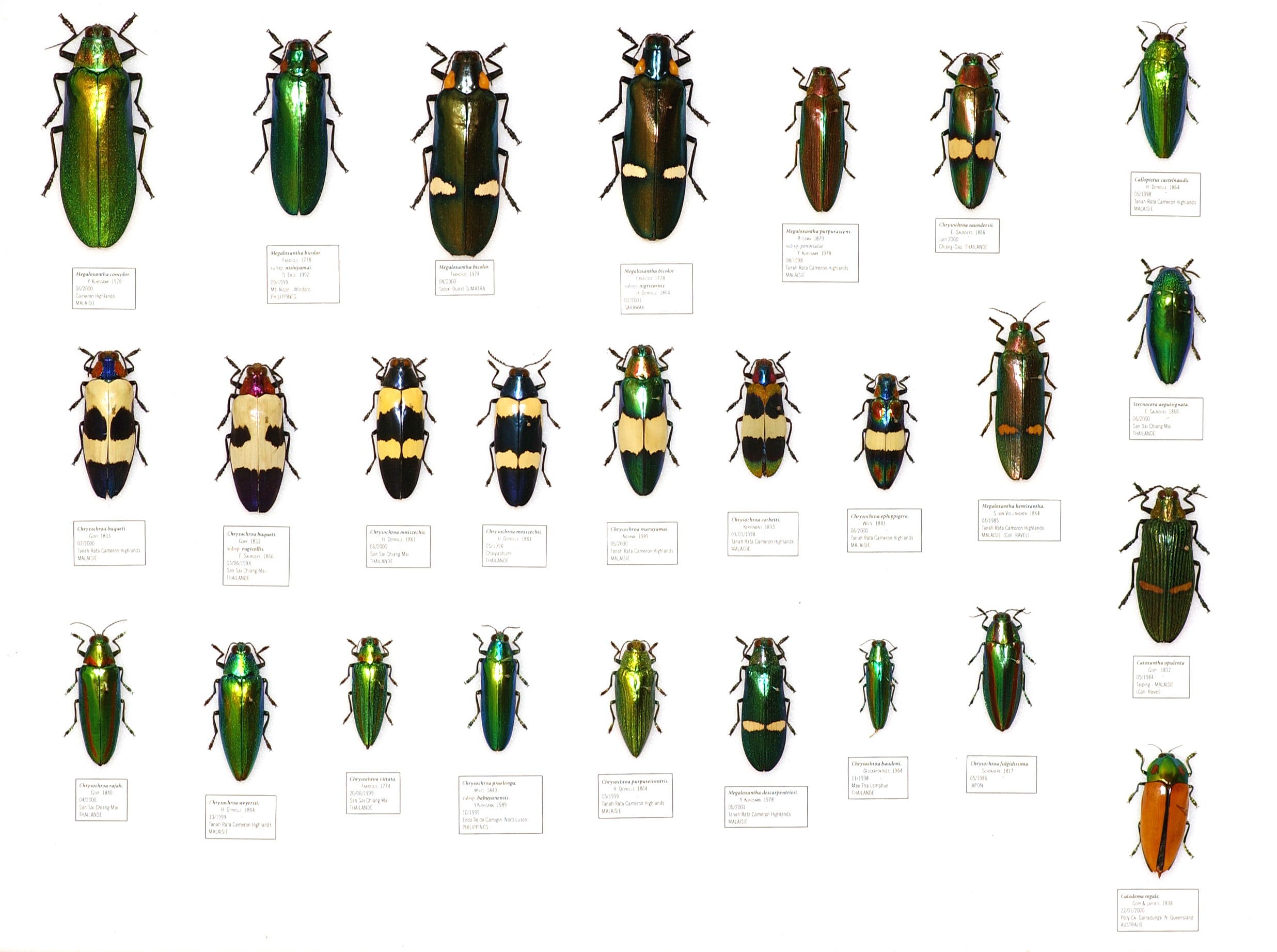 Box of specimens of beetles of the family Buprestidae native of Southeast Asia . These specimens come from the collections of naturalistic Lille natural history Museum.